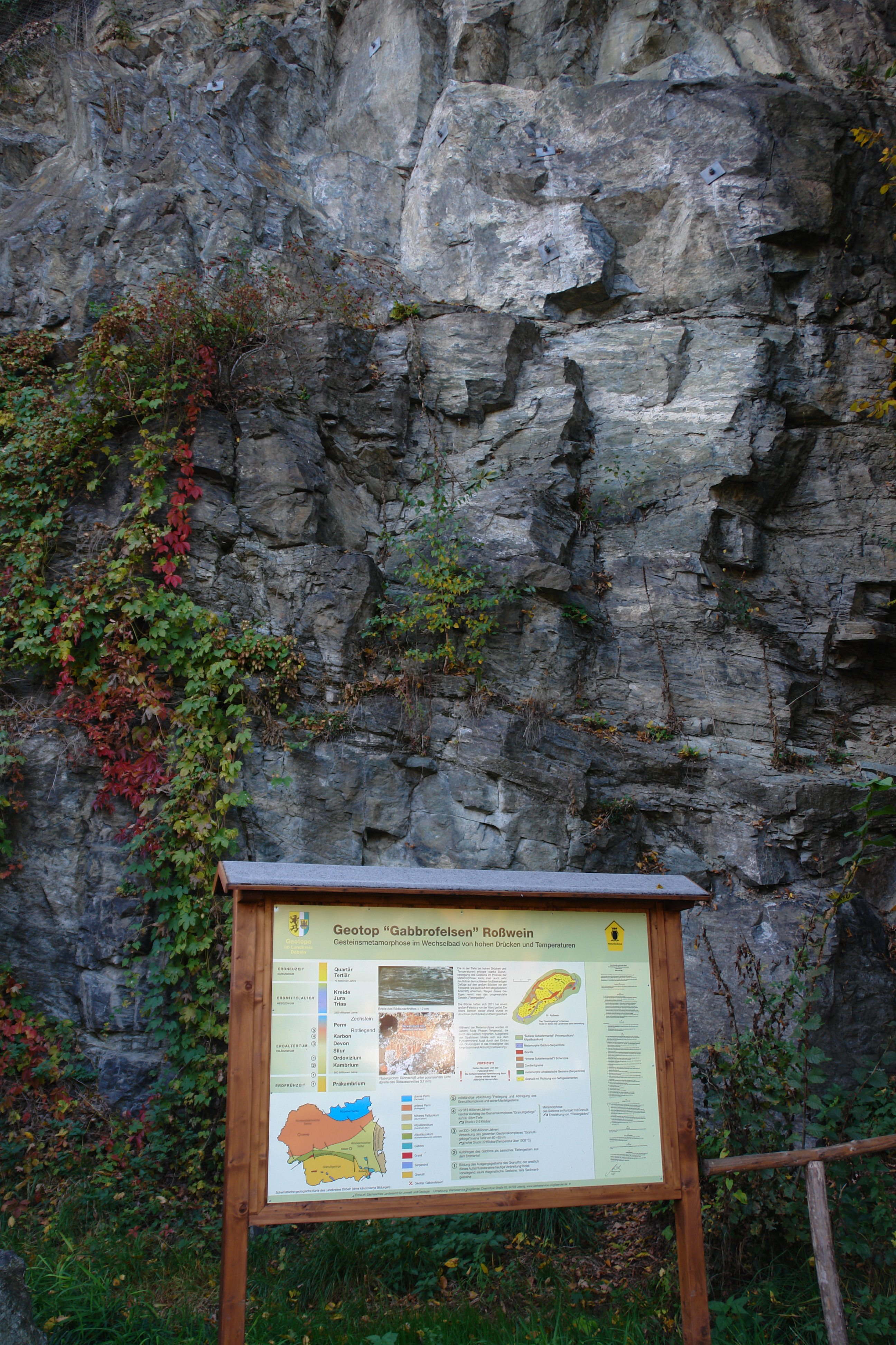 Natural Monument “Gabbrofelsen Roßwein” at Äußere Wehrstraße (county road [K] 7522) east of the small town of Roßwein, Saxony, Germany. The exposed rocks actually represent a metagabbro (also referred to as “Flasergabbro” due to its gneissose/schistose fabric) whose metamorphosis took place during the Variscan Orogeny (protolithic age: Cambrian; metamorphic age: Mississippian). The metagabbro belongs to the Saxonian Granulite Massif of the Central European Variscides and is located at the northeastern tip of that structural dome.